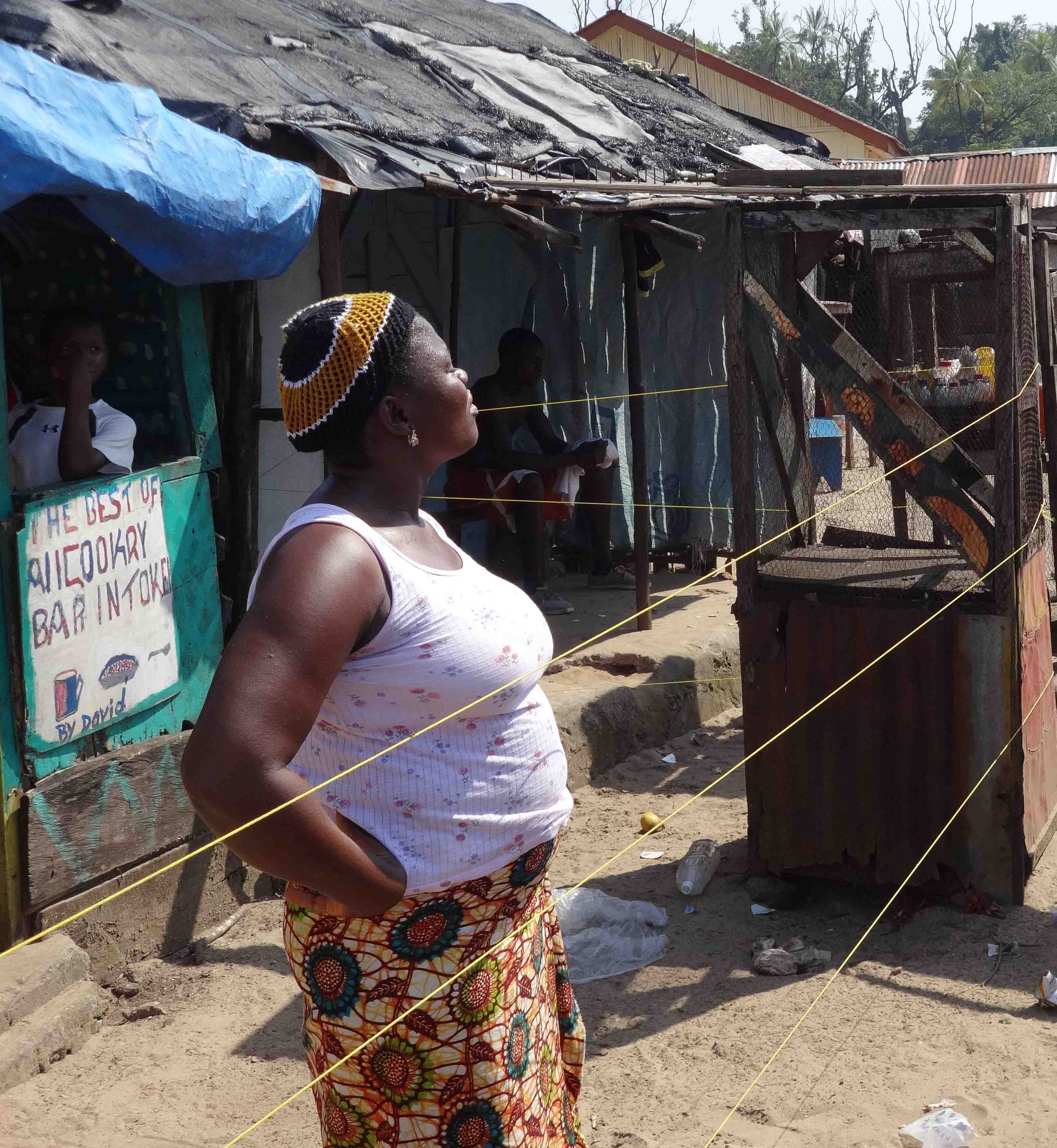 Woman who has to live in house quarantine for 21 days after a person living in that house has been infected by ebola virus at Sierra Leone 2014 [1]